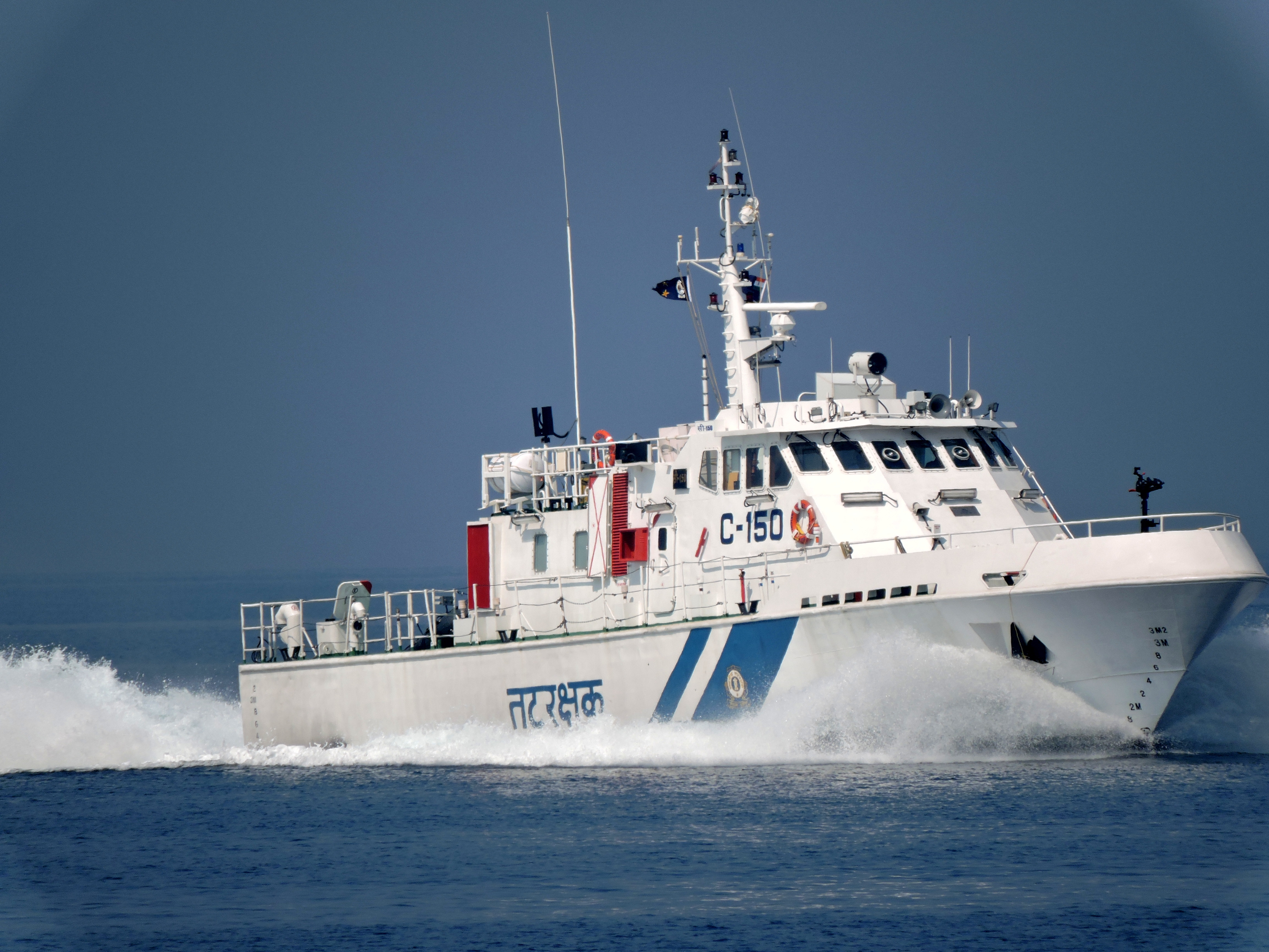 Andaman Island Indian Navy ship moving from Port Blair to Havelock Island